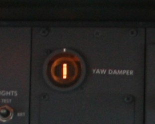 The Yaw Damper indicator